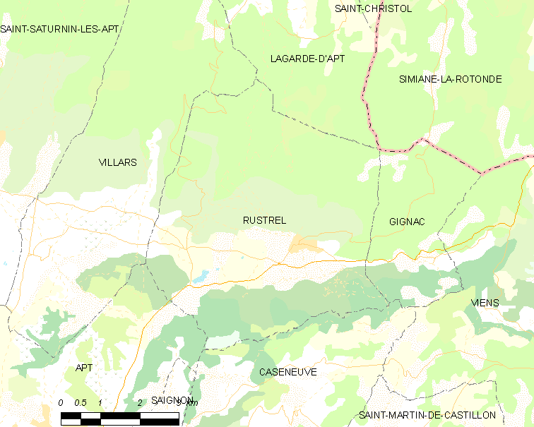 Map of French municipality Rustrel